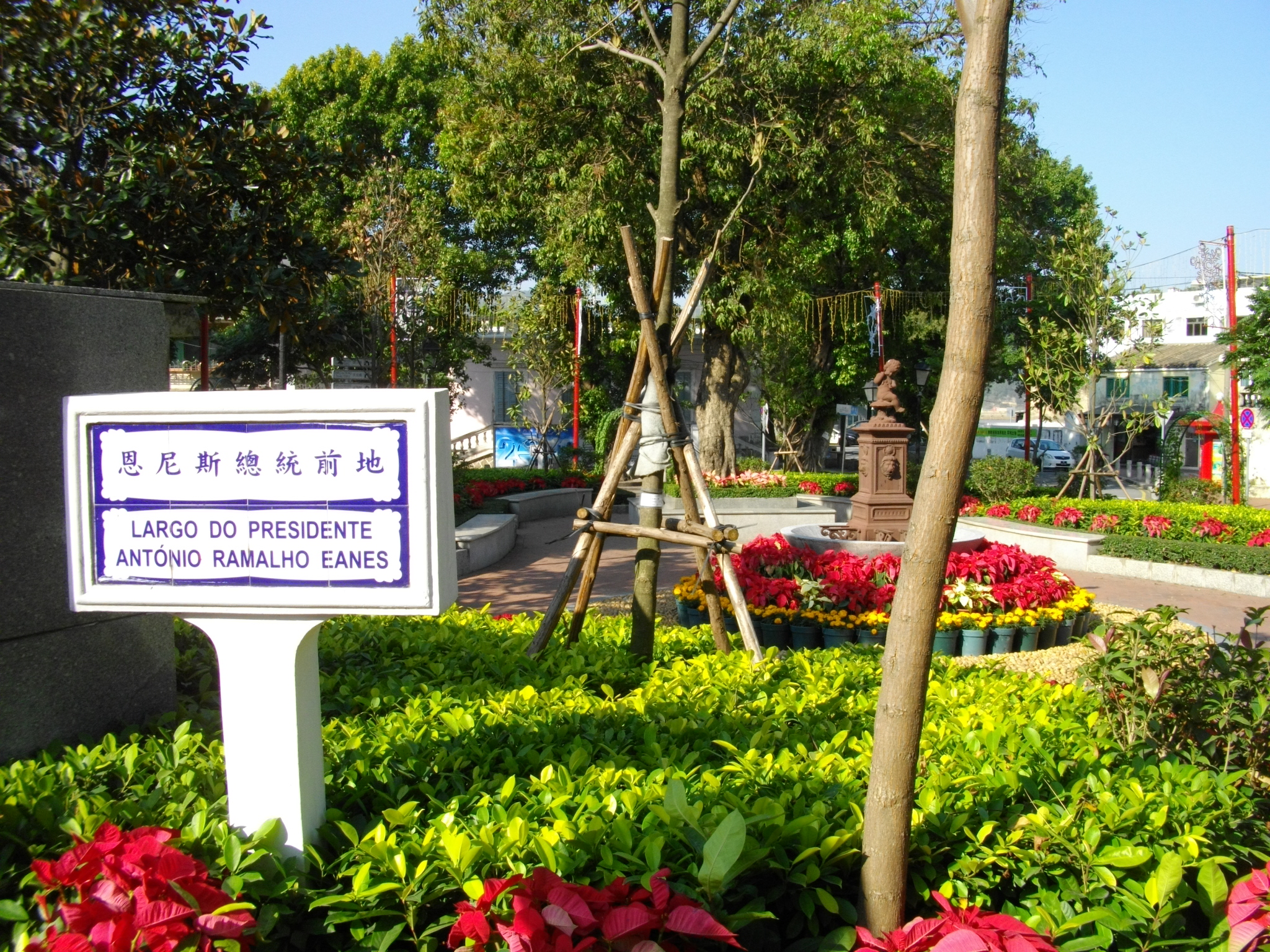 President Antonio Ramalho Eanes Square